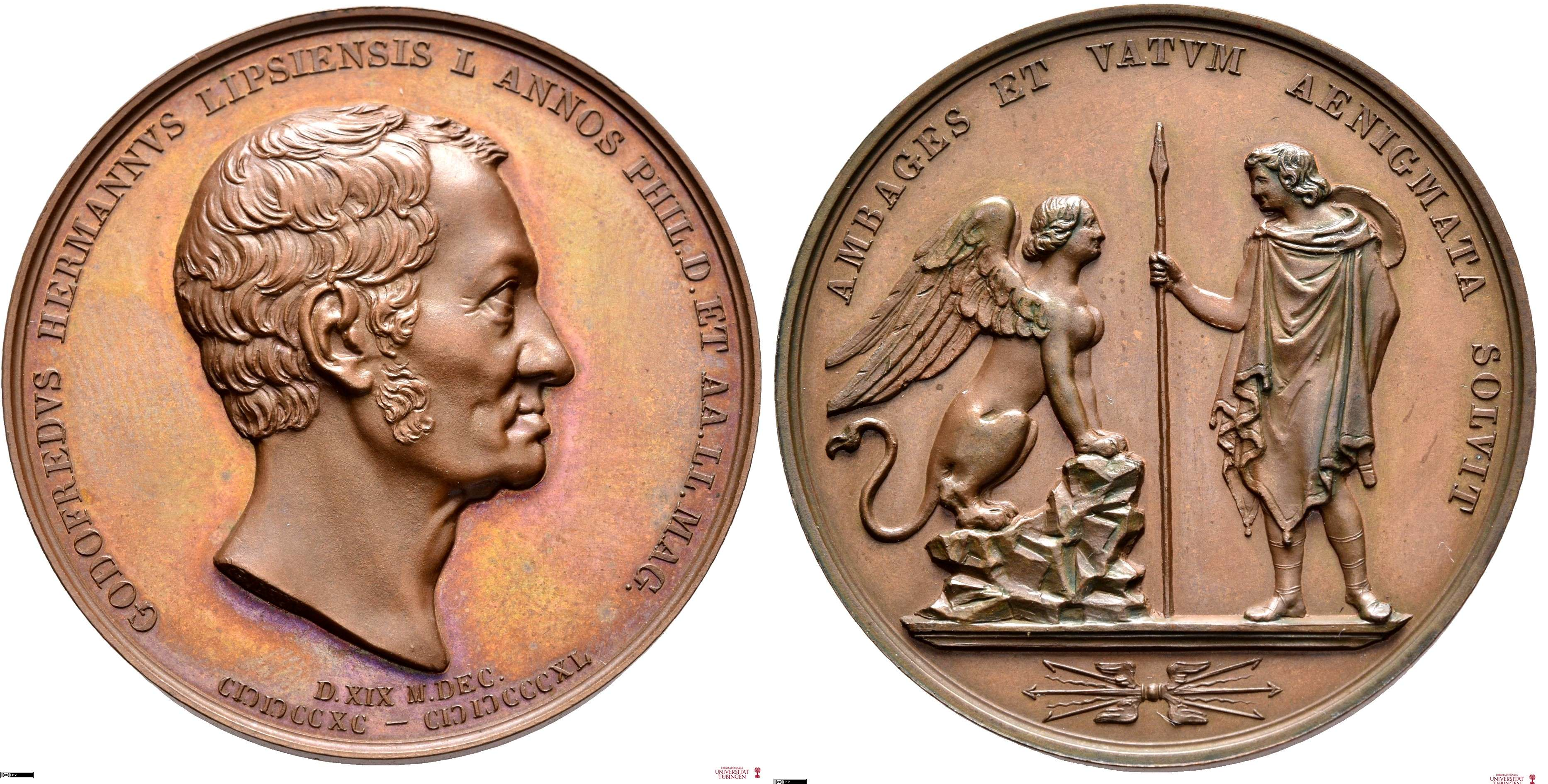 The front side depicts a bust of Hermann surrounded by his name and occasion for stucking this medal in Latin. The reason named is his 50th doctoral anniversary. The engraver Karl Reinhard Krüger signed below the neck. The back side pictures a scene that one could identify as Oedipus and the sphinx. The dedication in Latin drives the comparison between Hermann and Oedipus. Both have solved a riddle, Oedipus that of the sphinx, Hermann that of his field of study. A stylized lightning bolt is shown below the scene.